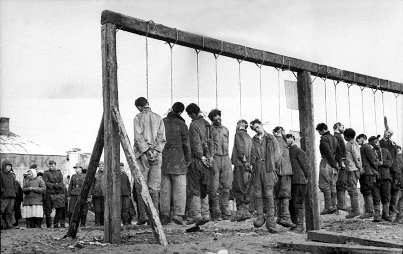 Title: Russland, Hinrichtung von Partisanen Extra information: Sowjetunion.- erhängte Partisanen (nach dem 21.1.1943). Im Hintergrund deutsche Soldaten und Zivilbevölkerung; PK 666 Factual corrections and alternative descriptions are encouraged separately from the original description. Additionally errors can be reported at this page to inform the Bundesarchiv. Original historic description